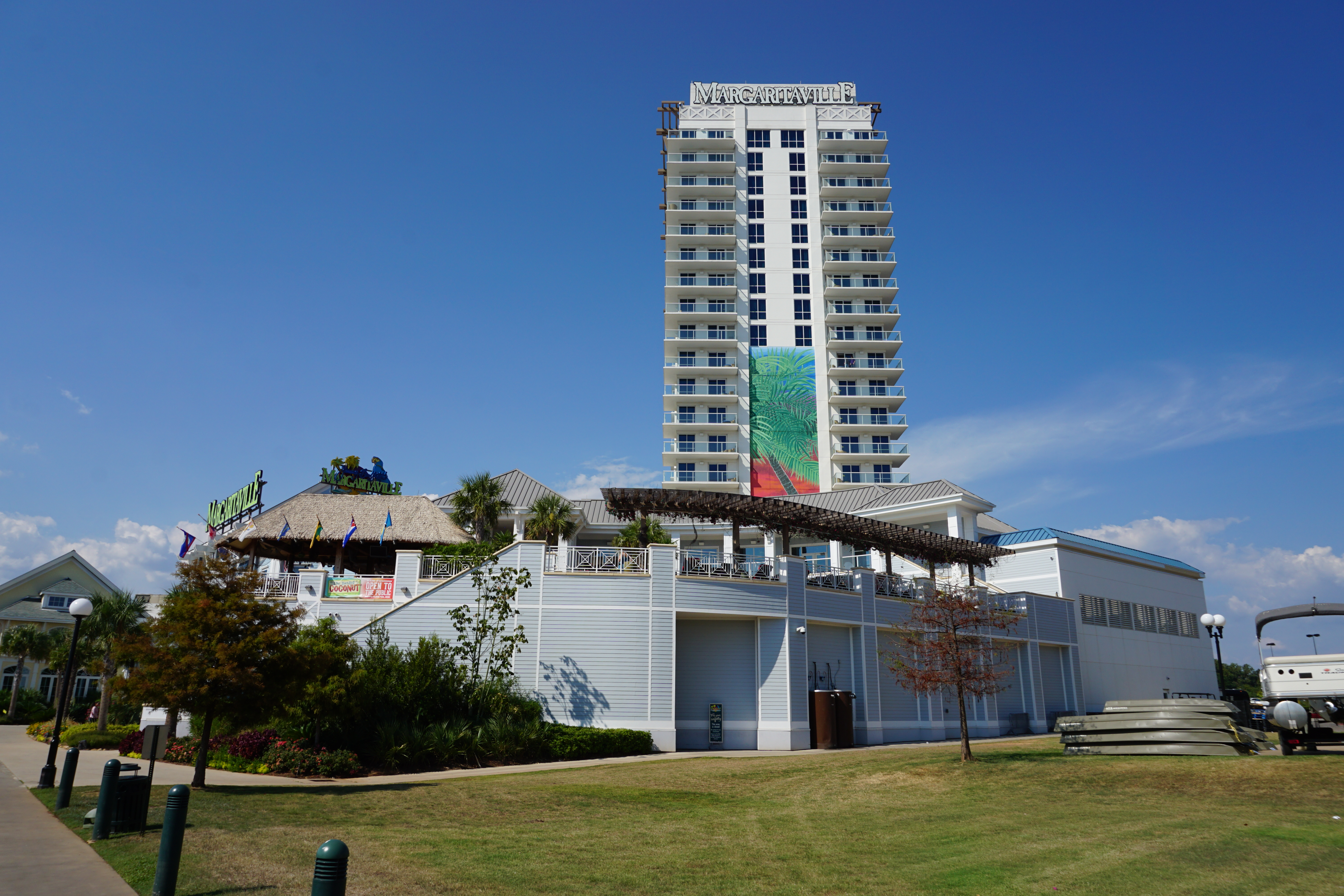 The Margaritaville Resort Casino at the Louisiana Boardwalk in Bossier City, Louisiana (United States).